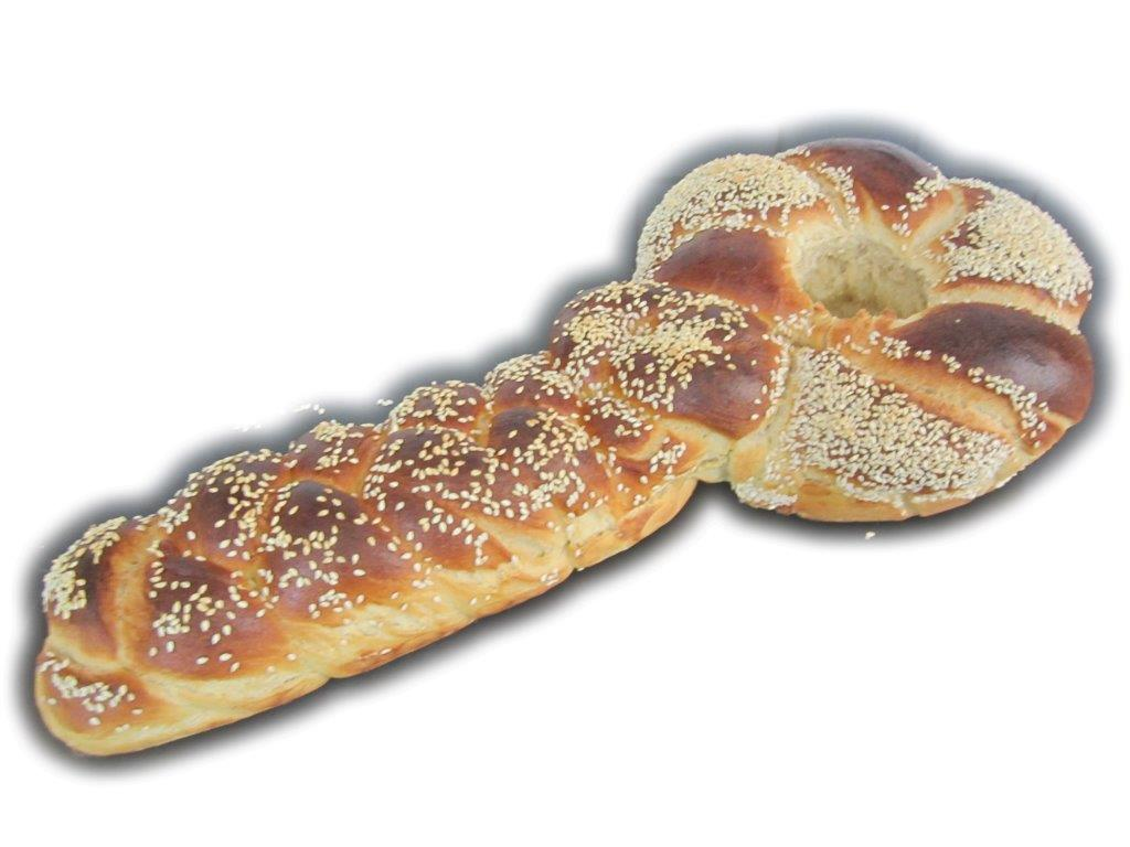 Challah